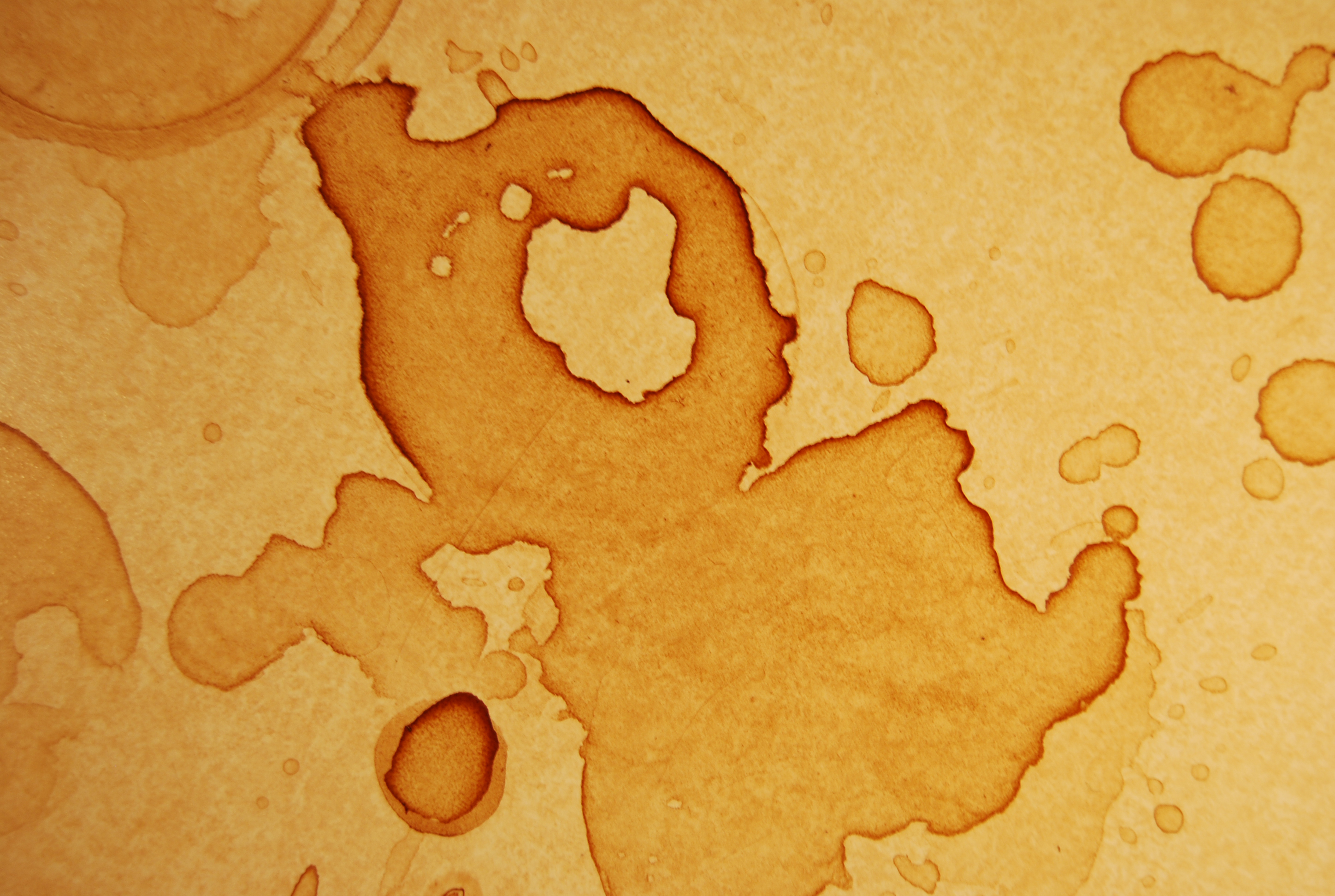 This is part of the Six Revisions Coffee Stains texture set released under Creative Commons for your use and enjoyment.